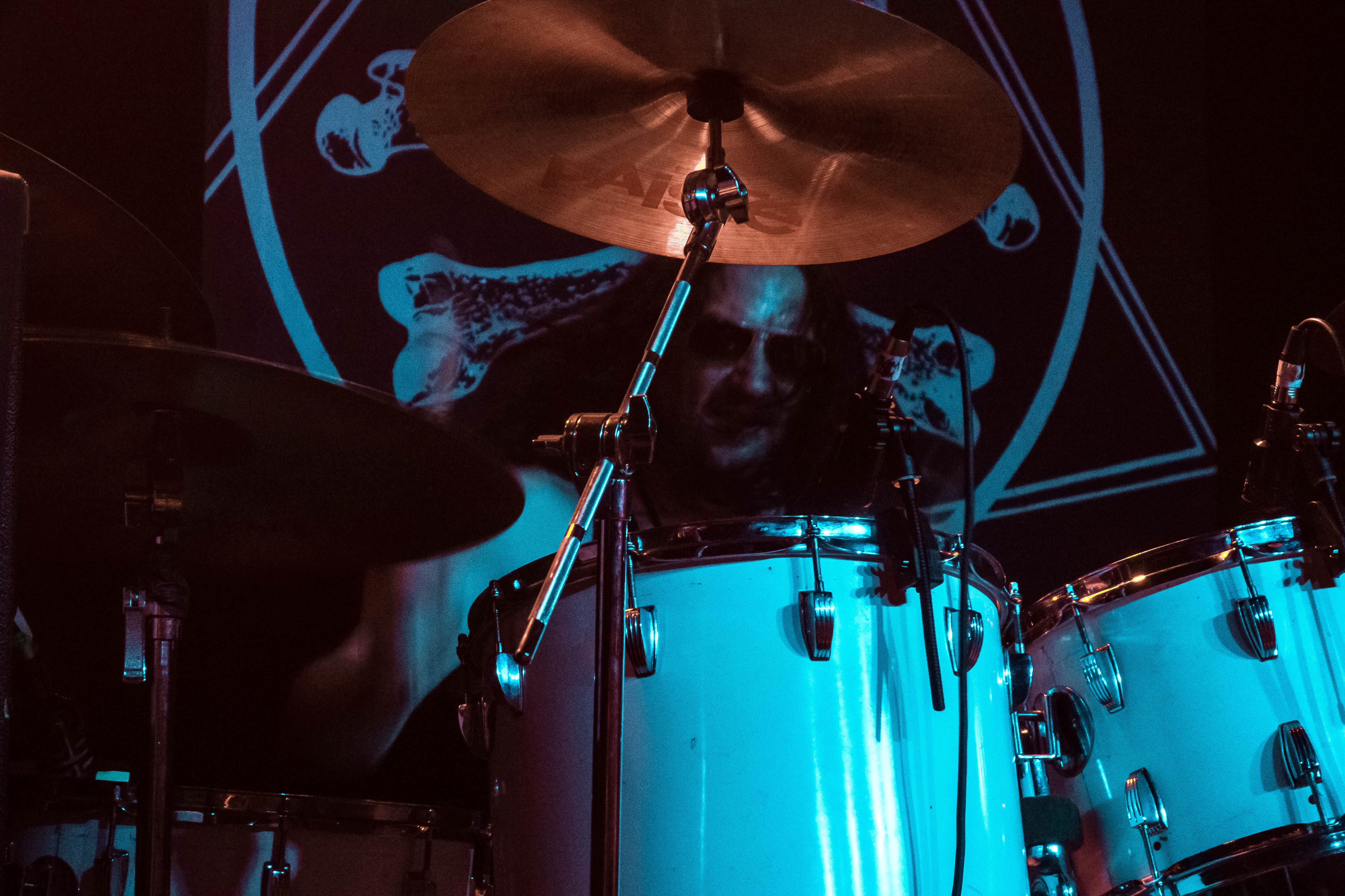 Venom Inc. performing at Saint Vitus Bar (Brooklyn, New York), October 3, 2017.